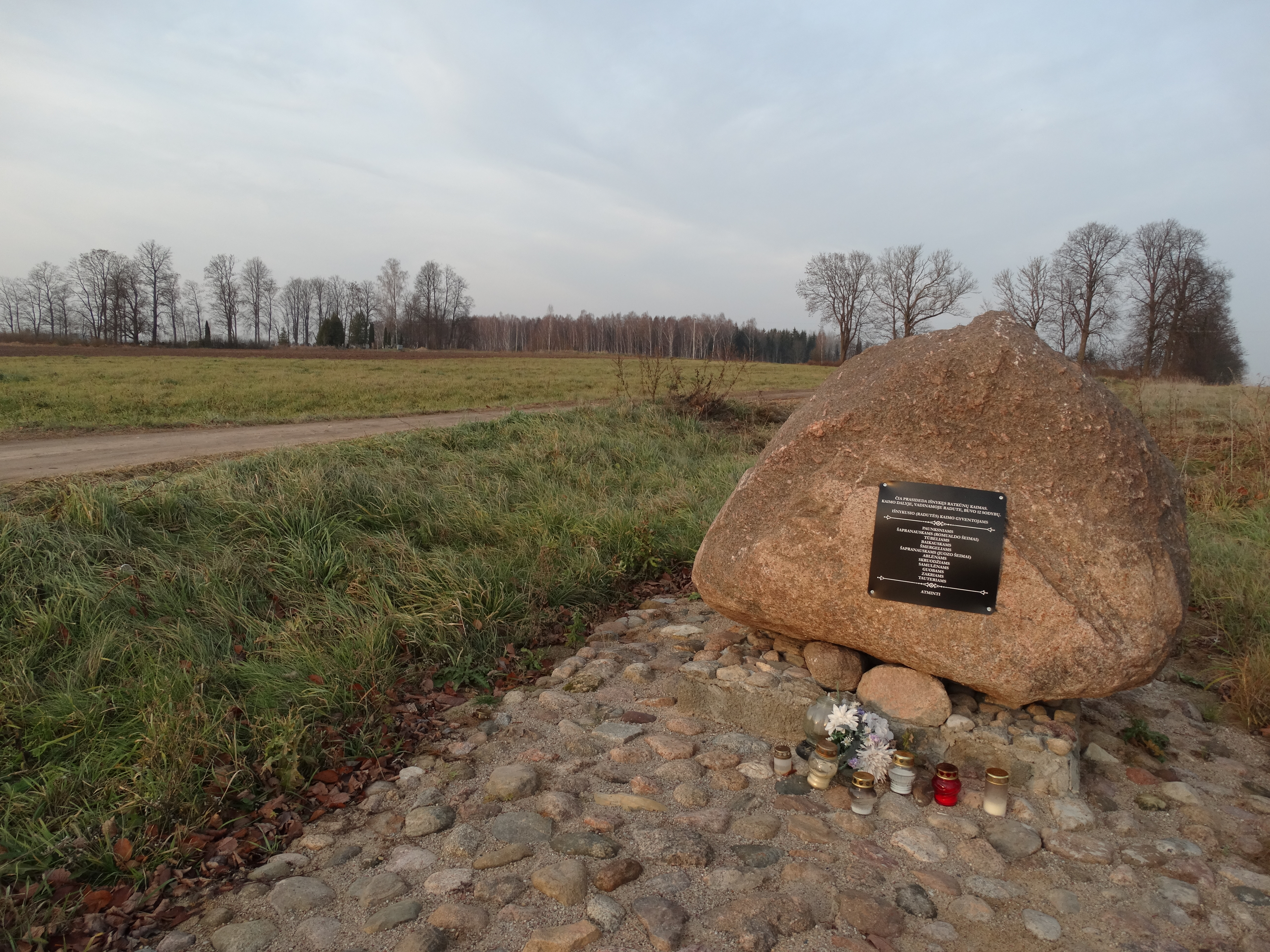 Ratkūnai, Rokiškis district, Lithuania